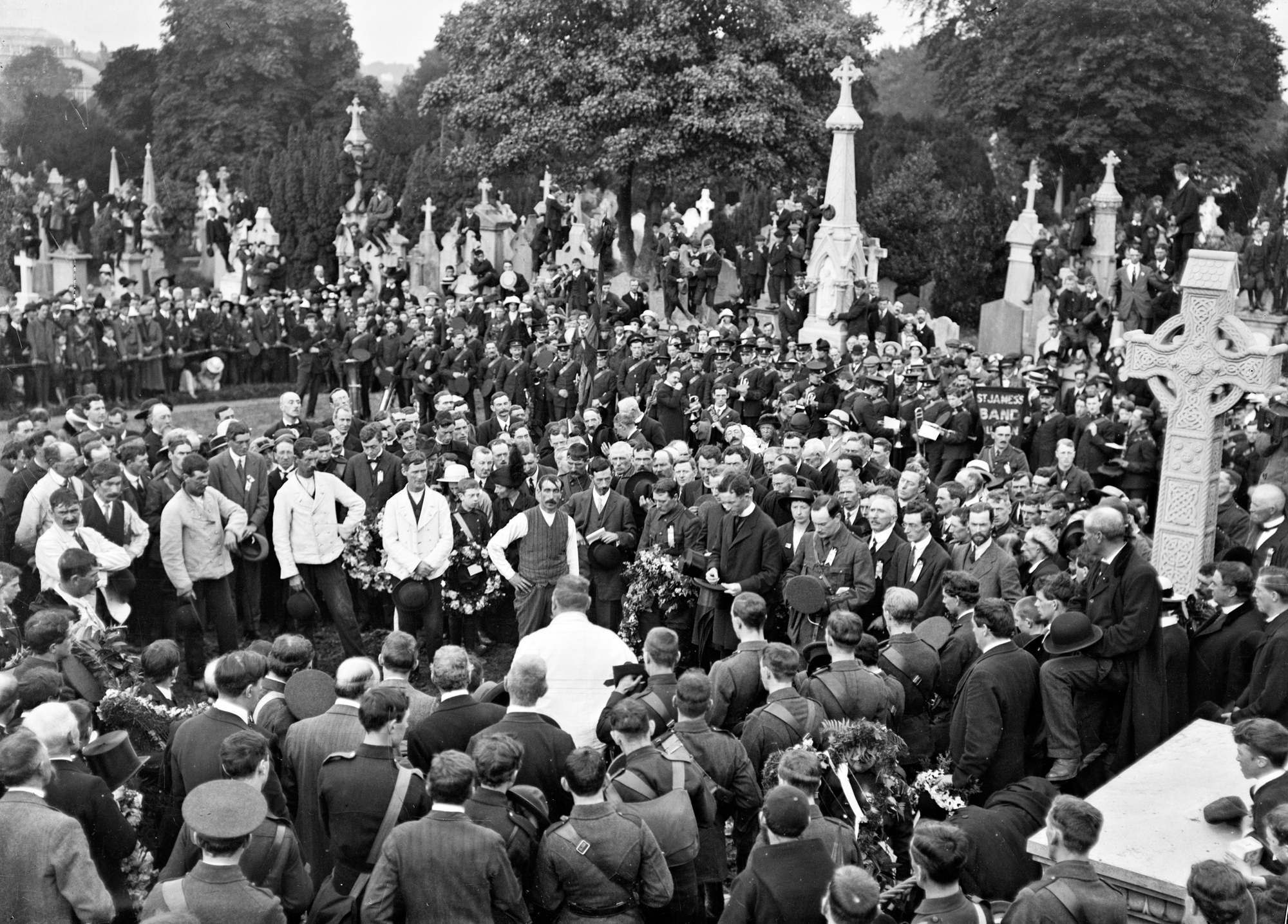 The Fools, the Fools, the Fools! One hundred years and one day after his execution by firing squad in Kilmainham Gaol we have Padraig Pearse in a crowd shot! This should provide rich pickings identifying characters who were to go on and play a part in the drama that was to unfold one year later. Today's contributors remind us of the ongoing effort to name those in this image. Helped by this numbered version, the Glasnevin Trust have sourced names for more than a few in the image. Apart from the St James's Band in the background, and the more obvious nationally known names (Pearse, Griffith, MacDonagh, MacBride, Brugha, Clarke, Béaslaí, Plunkett, Ó Ceallaigh, etc), members of the public have put names to others there that day. If any of our contributors can help, the Glasnevin Trust would I'm sure be delighted with the input.... Photographer: Brendan Keogh Collection: Keogh Photographic Collection Date: August 1915 NLI Ref: Ke 234 You can also view this image, and many thousands of others, on the NLI’s catalogue at